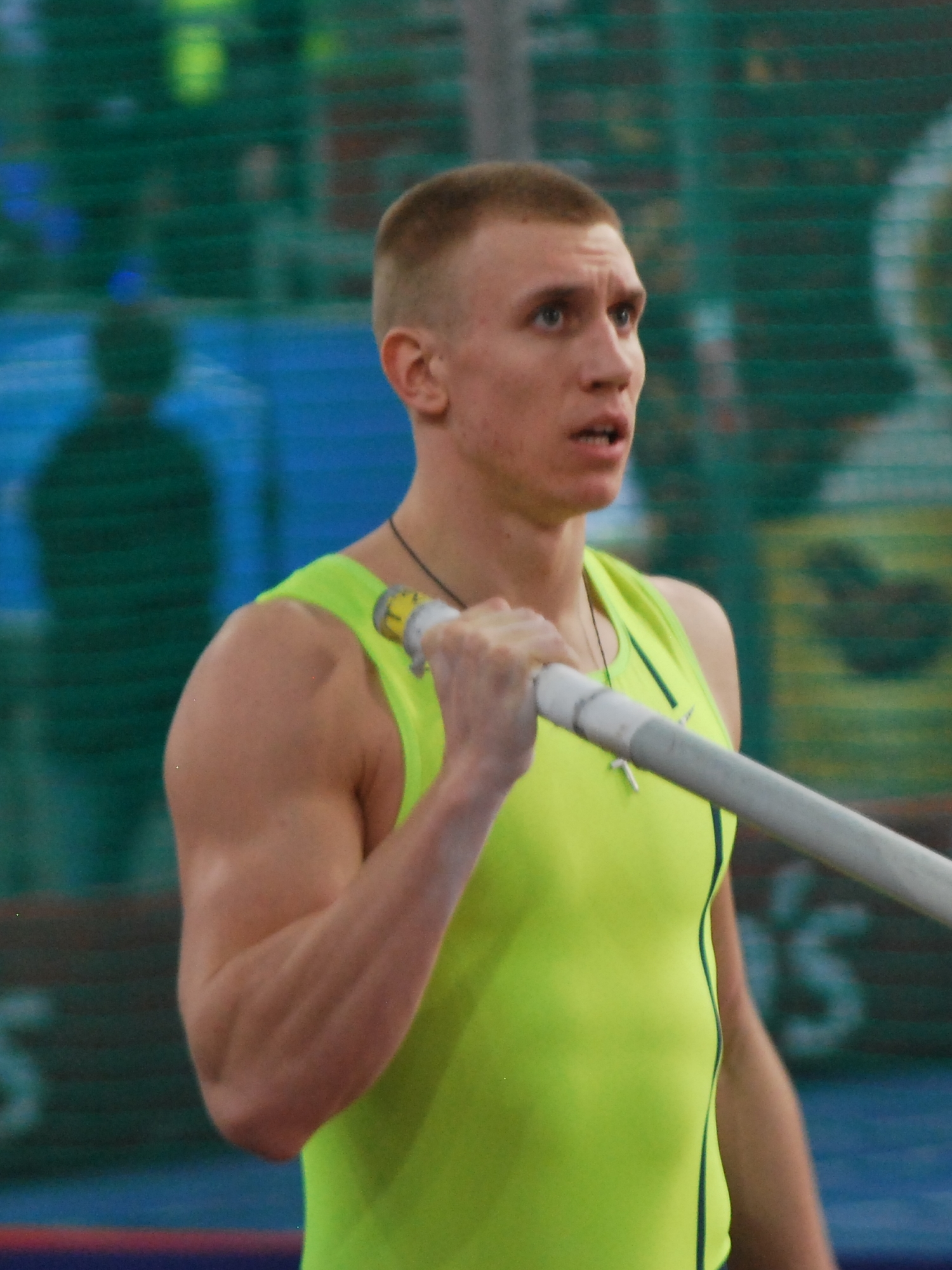 Pedros Cup 2015 Łódź, Piotr Lisek, pole vaulter from Poland